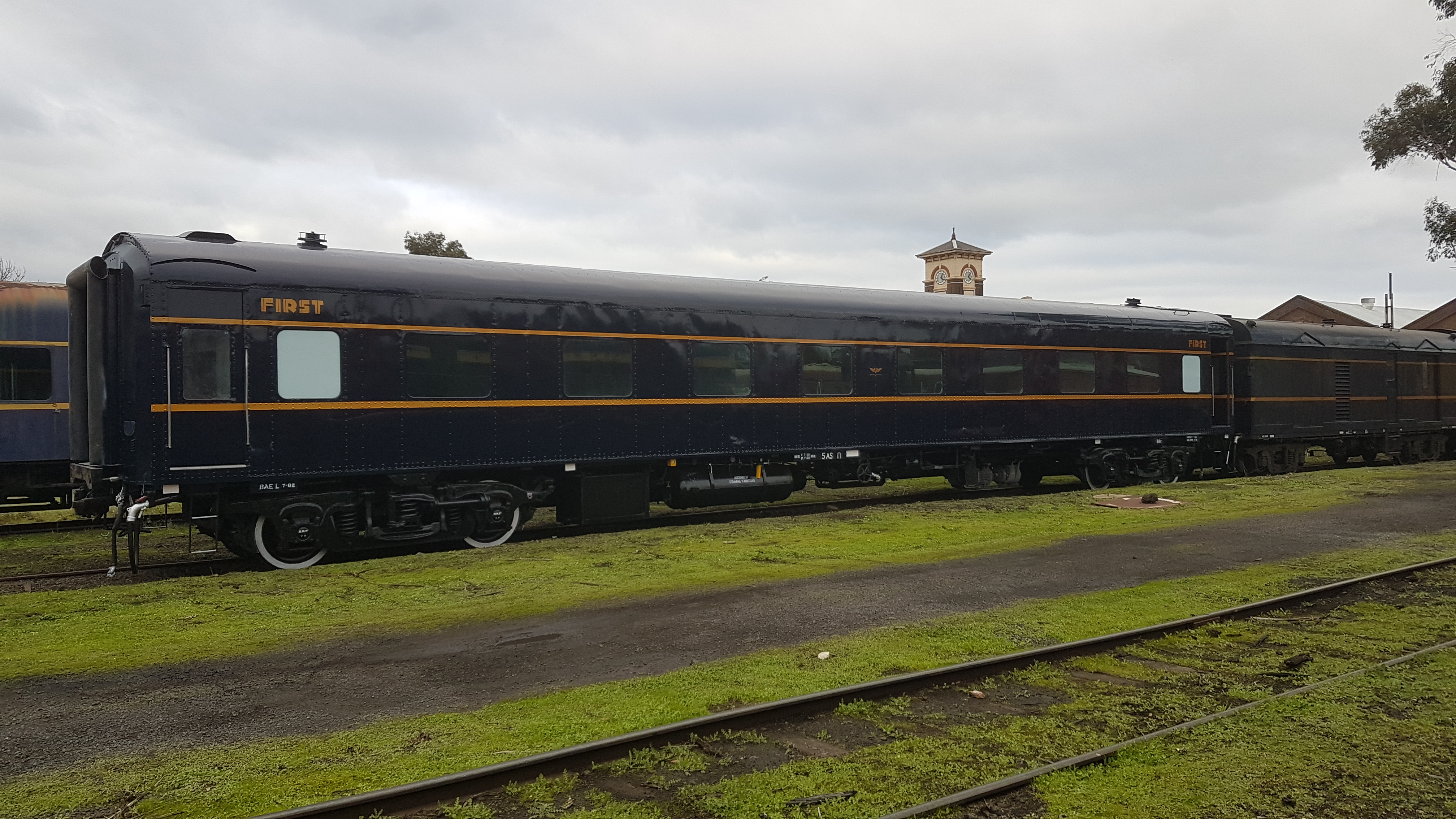 Preserved Victorian Railways S class car at Newport Workshops